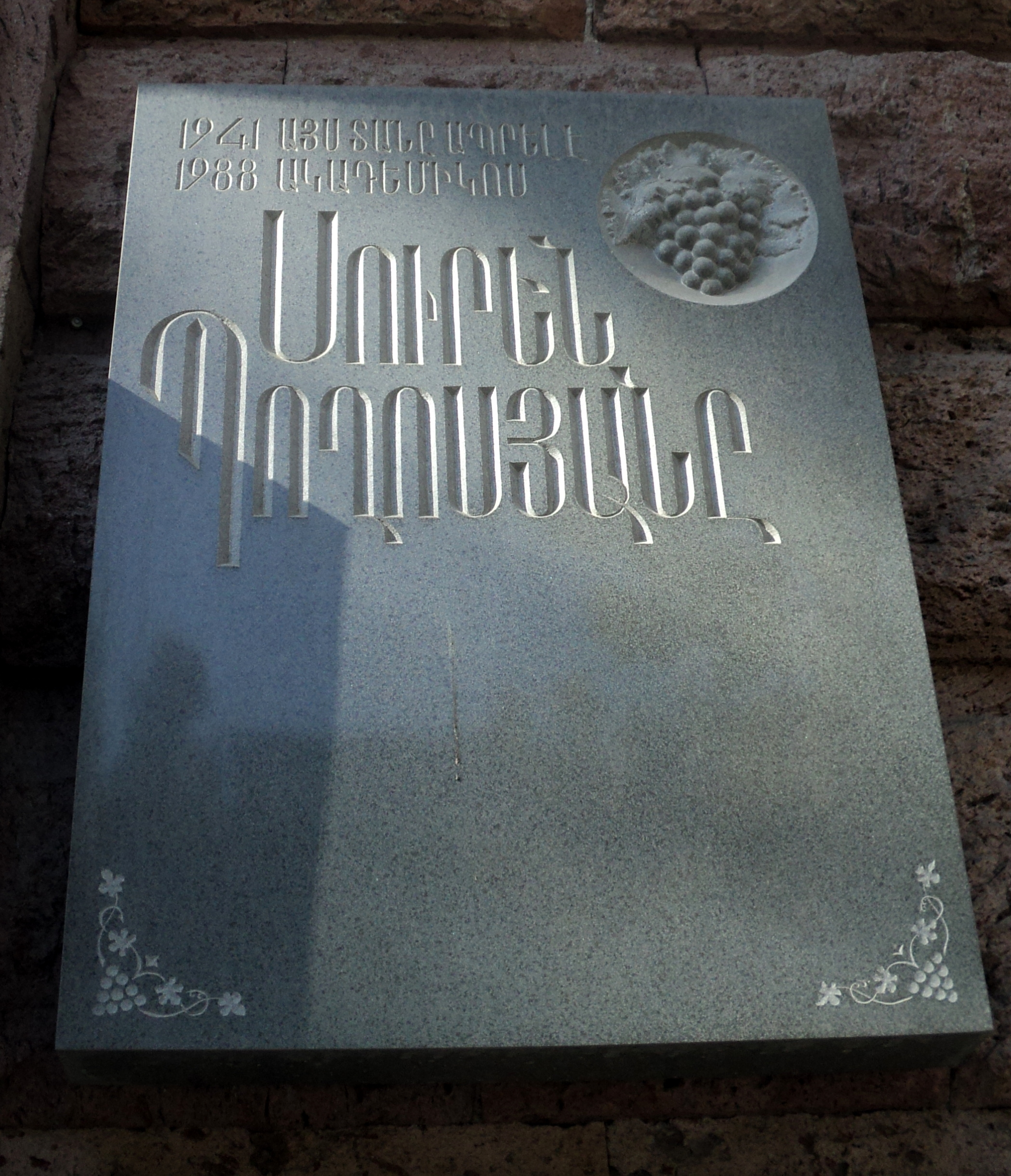 Suren Poghosyan's plaque